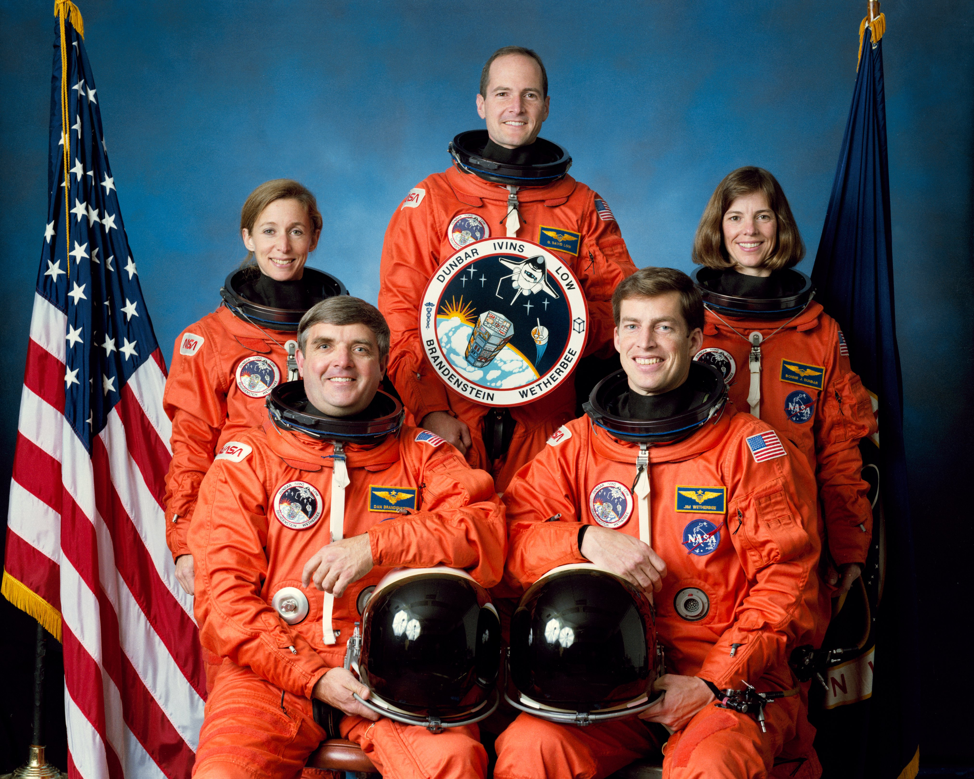 Five astronauts launched aboard the Space Shuttle Columbia on January 9, 1990 at 7:35:00am (EST) for the STS-32 mission. Pictured in their crew portrait, front left to right, are Daniel C. Brandenstein, commander; and James D. Weatherbee, pilot. Pictured rear left to right are mission specialists Marsha S. Ivins, G. David Low, and Bonnie J. Dunbar. Primary objectives of the mission were the deployment of the SYNCOM IV-F5 defense communications satellite and the retrieval of NASA's Long Duration Exposure Facility (LDEF).